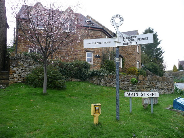 Signs at a crossroads on Main Street, Sibford Gower, Oxfordshire